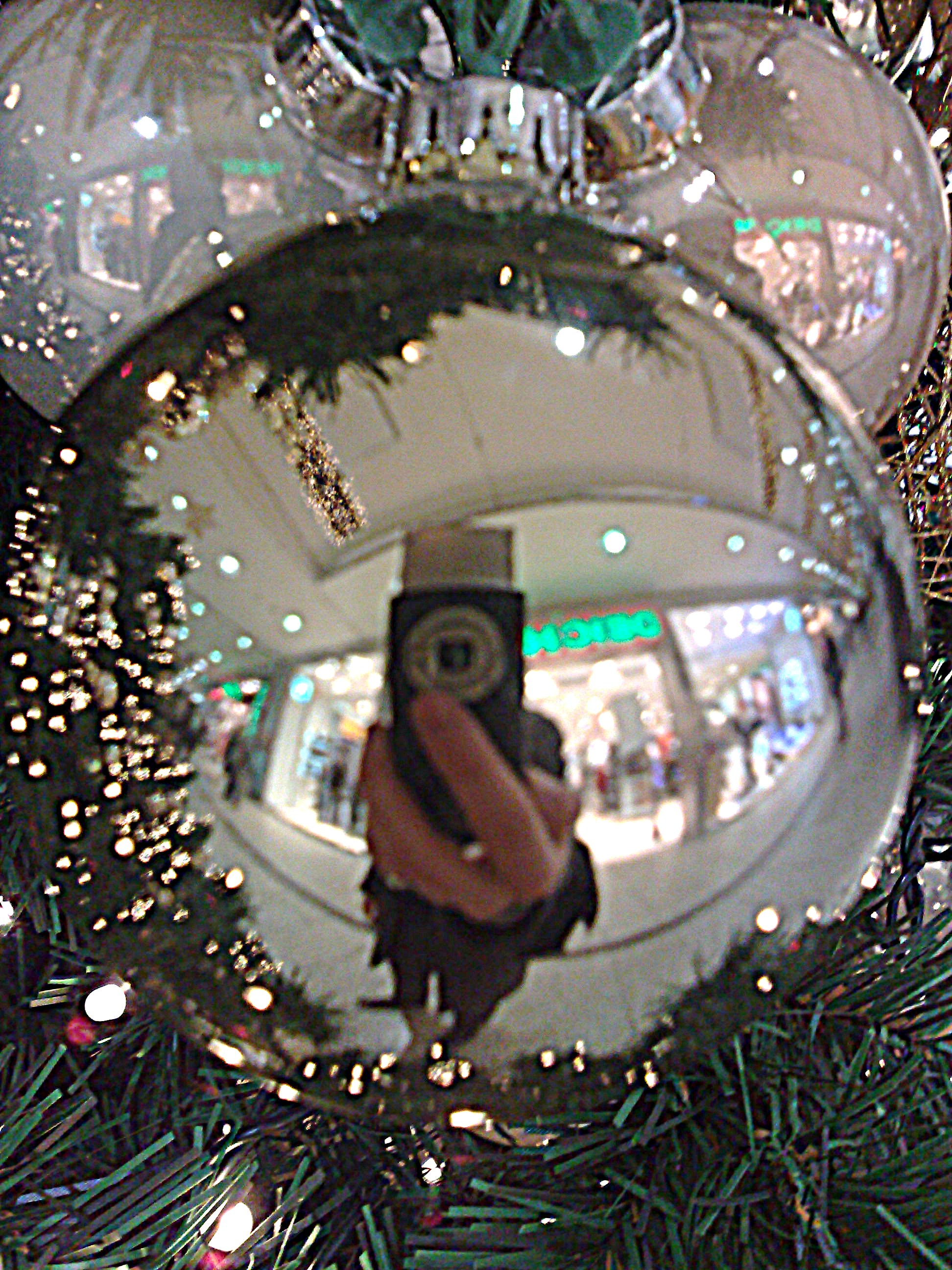 reflection of a camera shot in christmas baubles